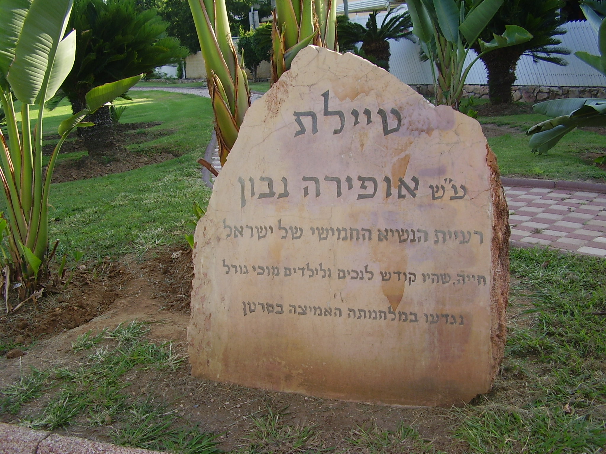 Ophira Navon Promenade, Nahariya